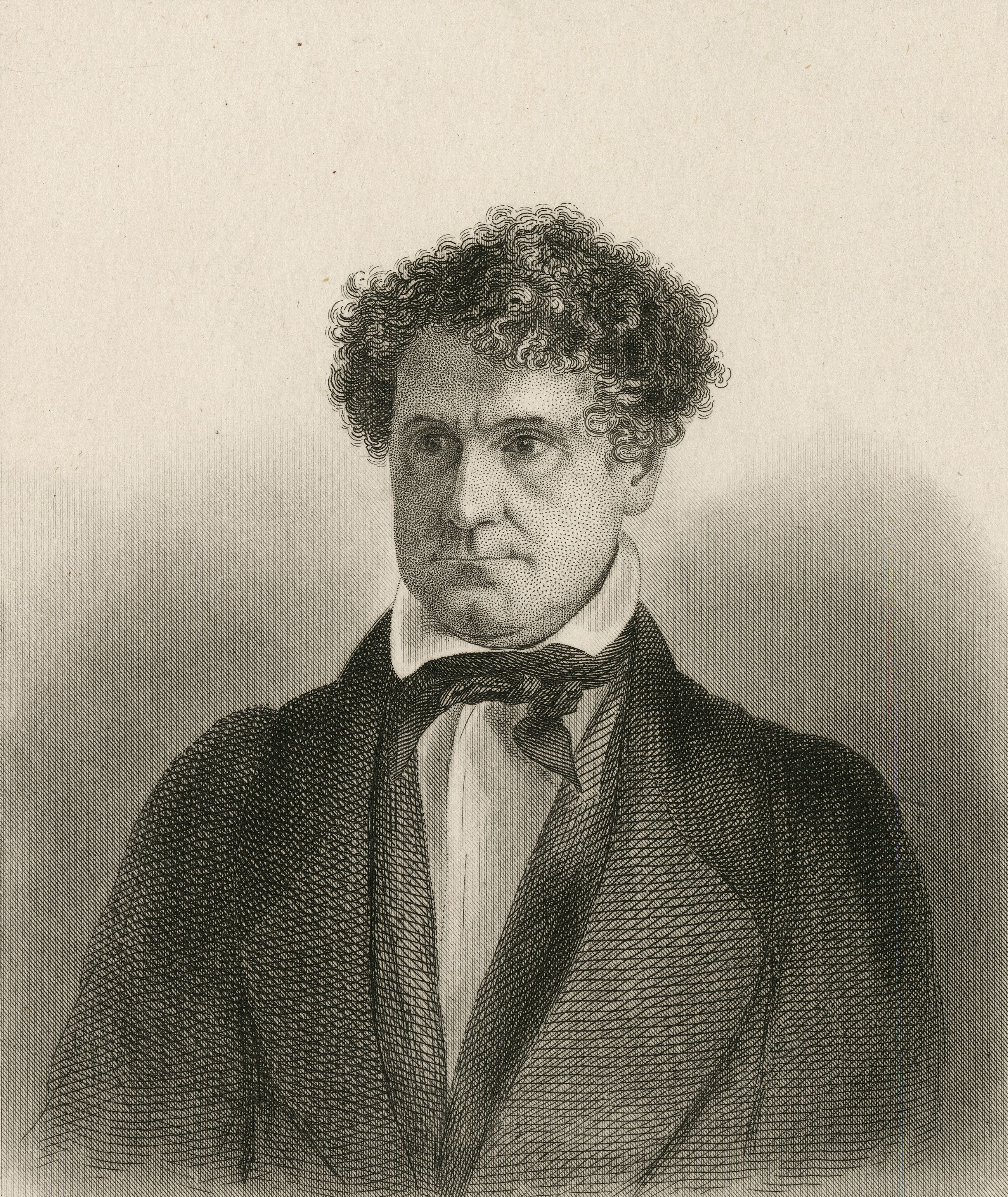 Portrait of Thomas S. Hamblin, engraved by W. L. Ormsby